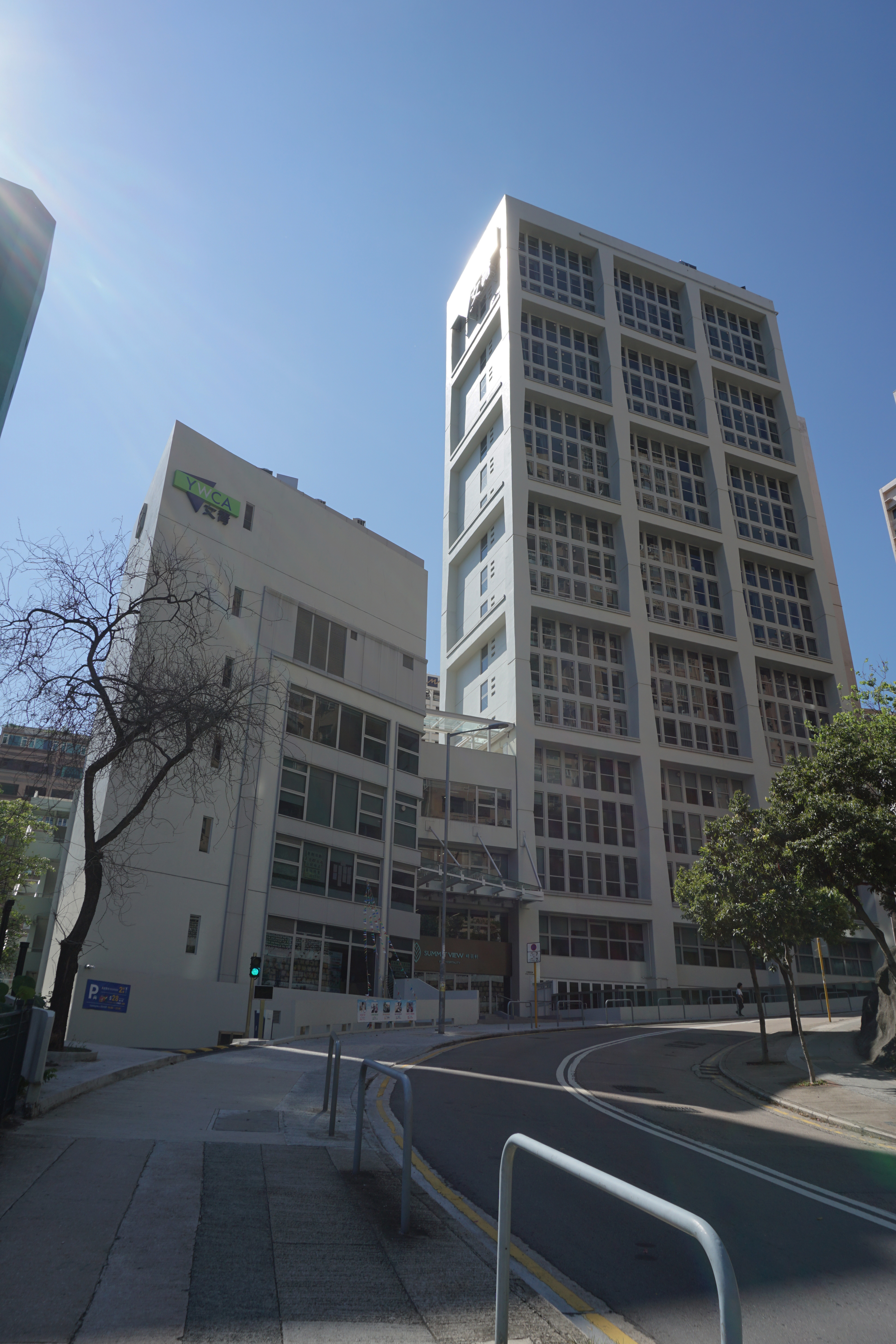 Summit View Kowloon (hotel) in Ho Man Tin, Hong Kong.